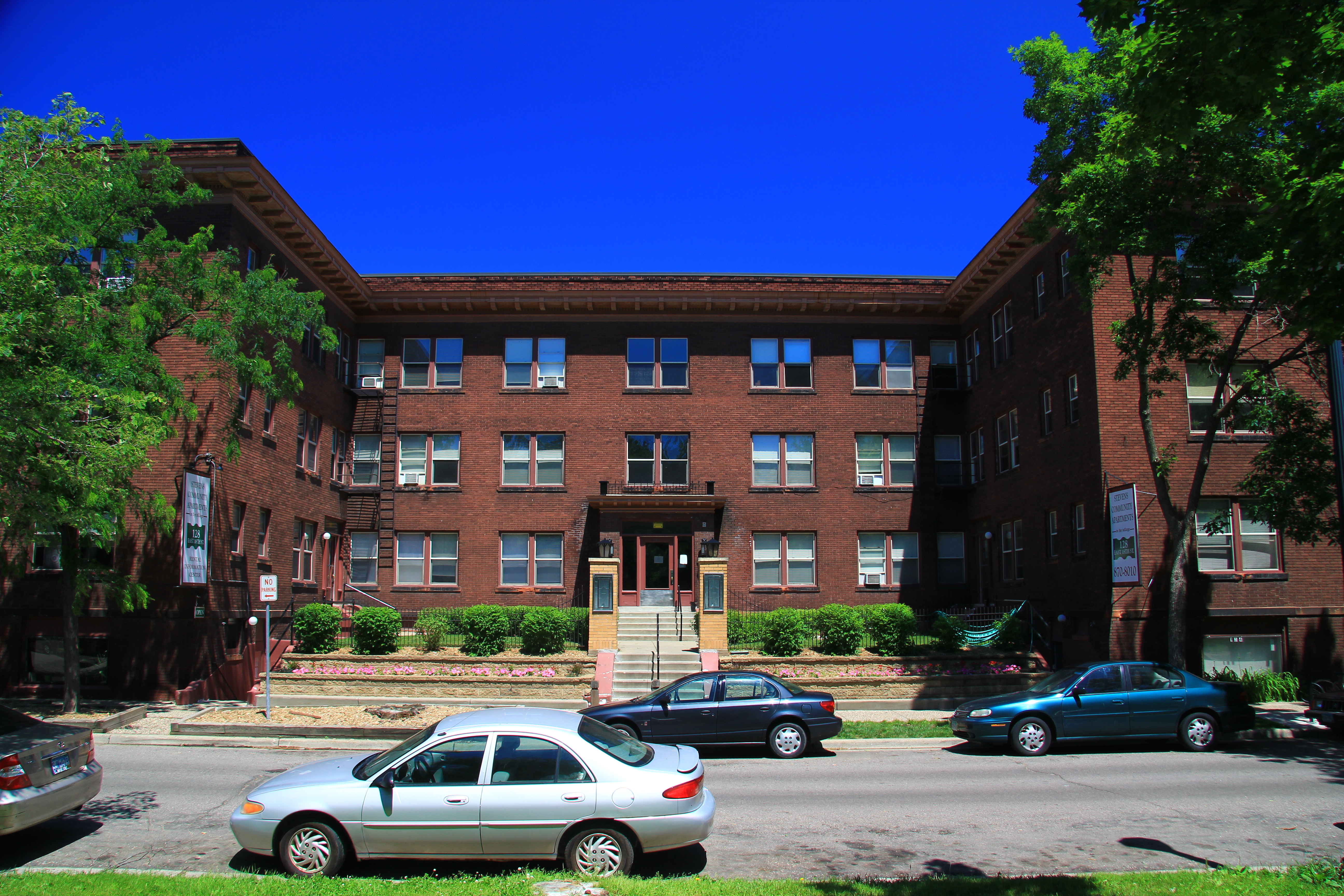 Stevens Community Apartments, 128 East 18th Street, Stevens Square, Minneapolis, Minnesota, USA. Original description: Another U-shaped building.